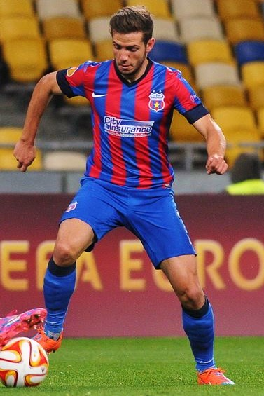 Alexandru Chipciu